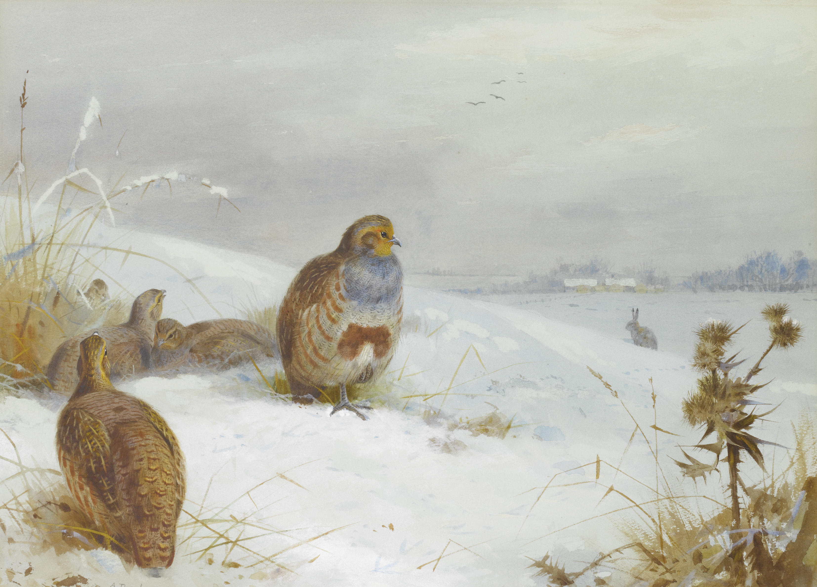 Hard times – partridges and a hare. Watercolour. 36 x 50 cm